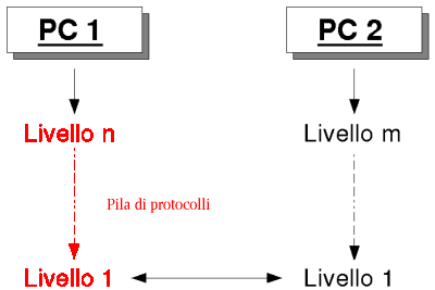 Visualization of network protocol